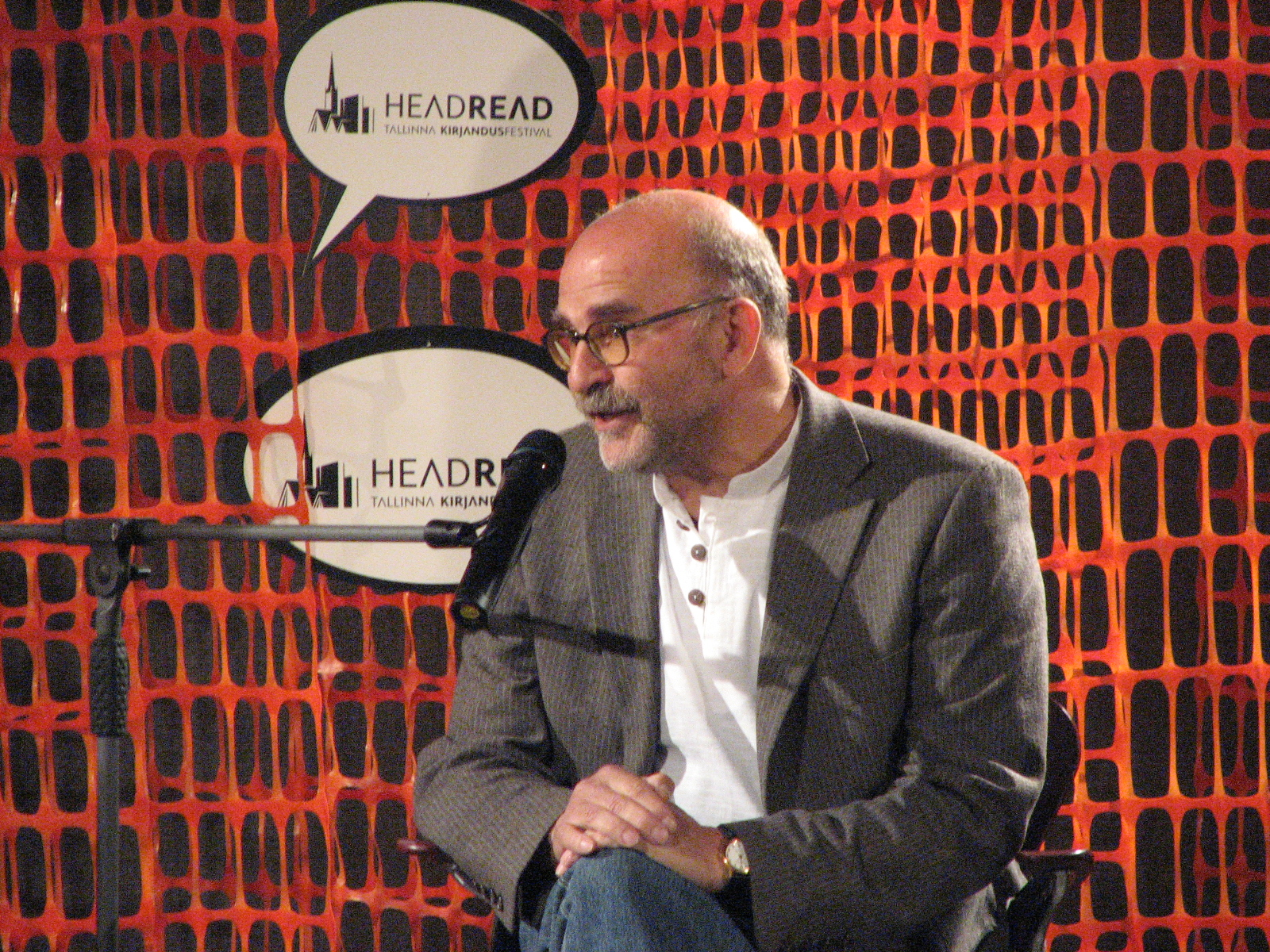 David Vseviov performing in literature festival HeadRead